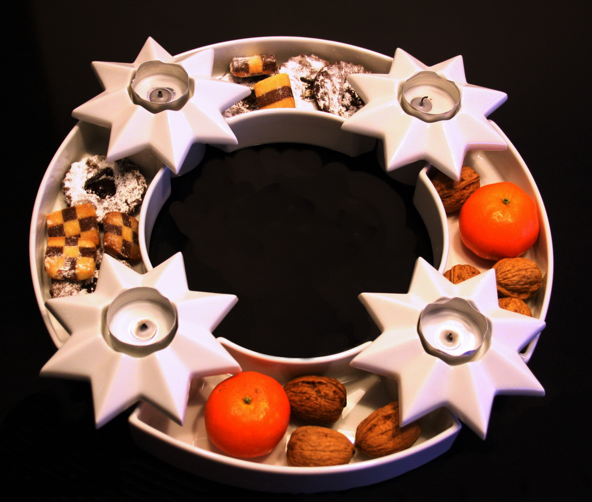 Advent wreath with tealights.